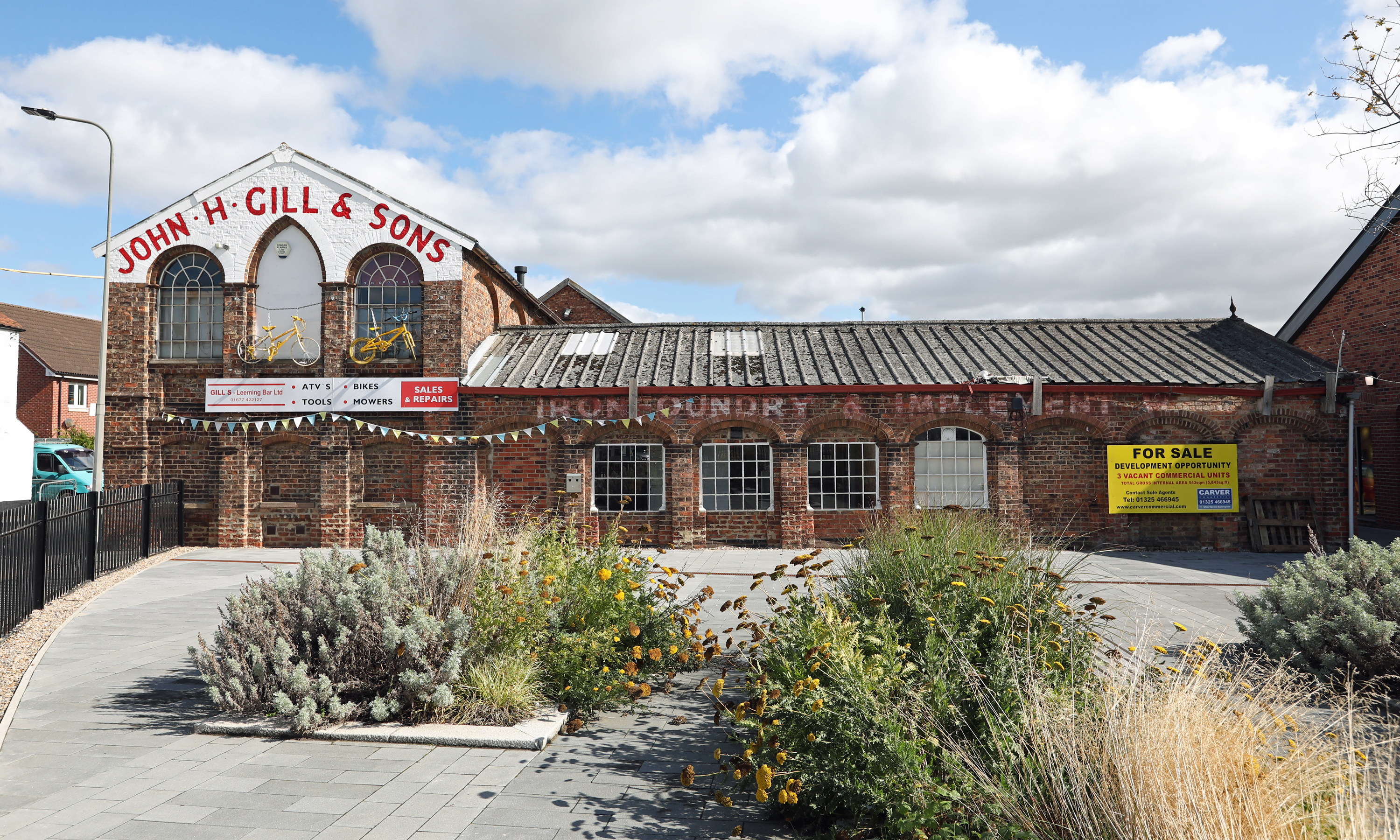 John Gill Agricultural Works And Garage Wikidata has entry Q26443707 with data related to this item.